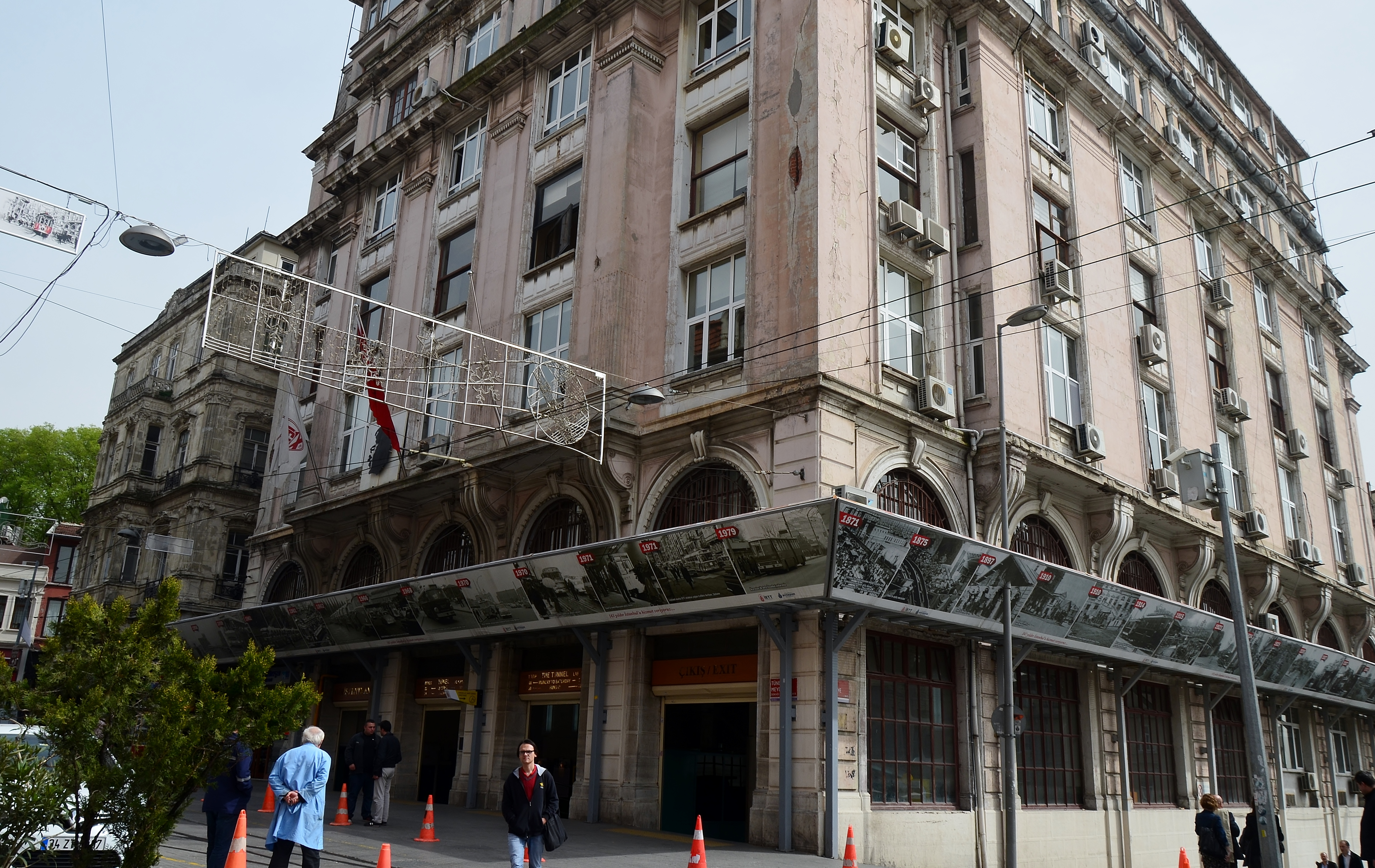 Istanbul Tünel building at İstiklal ceddesi, Beyoğlu